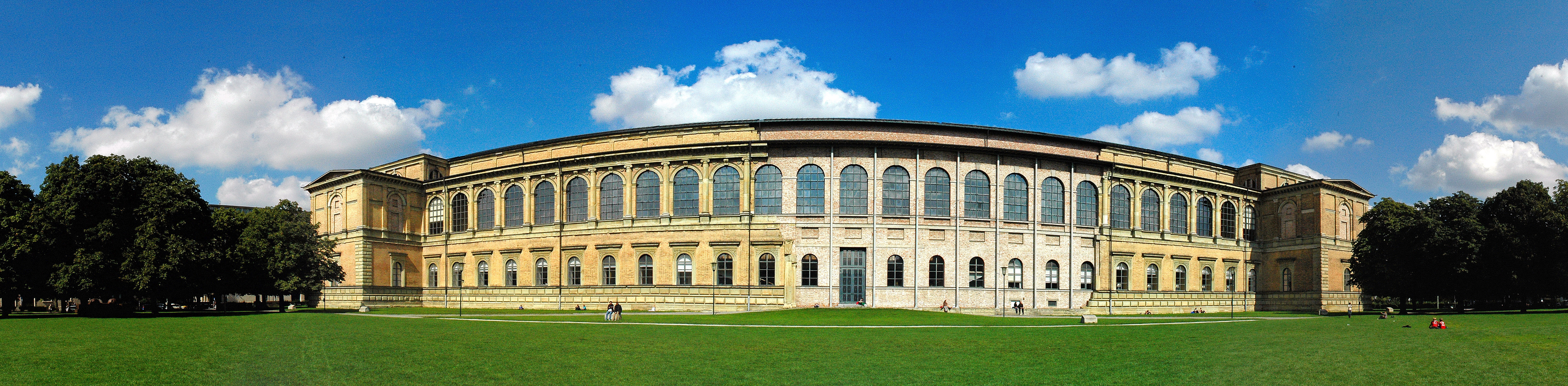 Alte Pinakothek, Munich, Panorama